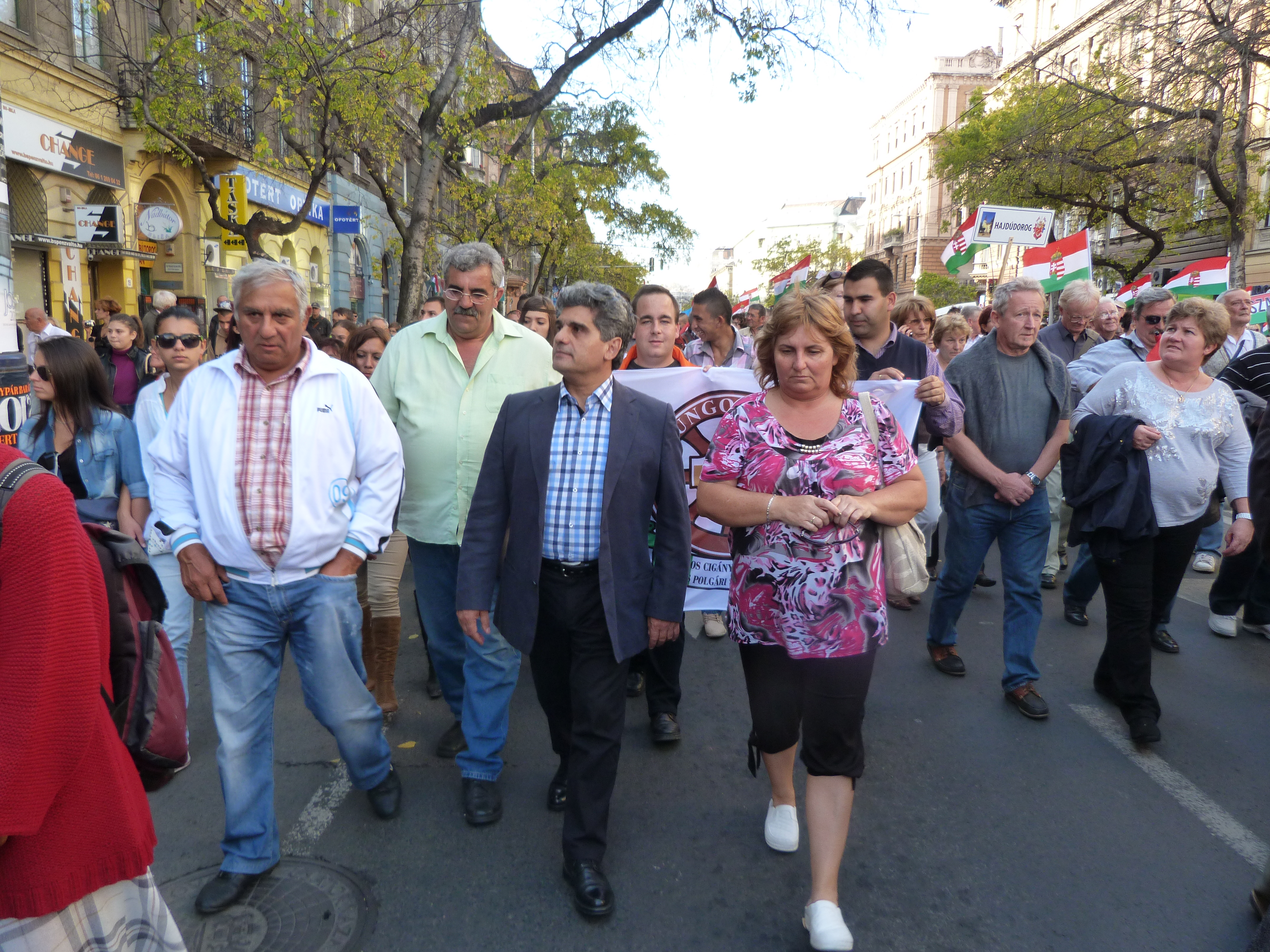 Live on the 23rd of October, 2013. Budapest downtown. The 3rd Peace March for Hungary. Budapest Andrássy út – körút – Oktogon – Andrássy út (Terror Háza) – Körönd – Hősök tere. Pro-goverment demonstration. Sourches: Civil Összefogás Fórum Sajtótájékoztató a 2013. október 23-ai Békemenetről Több százezren a Hősök terén ©© Derzsi Elekes Andor, Budapest, 2013, You are authorised to use these photos and vids under Creative Commons – even for commercial, for profit purposes. Photos must be attributed to Derzsi Elekes Andor. All of the photos and vids in the Metapolisz DVD line are under Creative Commons and can be used even for commercial – for profit – purposes. Recommended Citation Derzsi Elekes Andor: Metapolisz DVD line